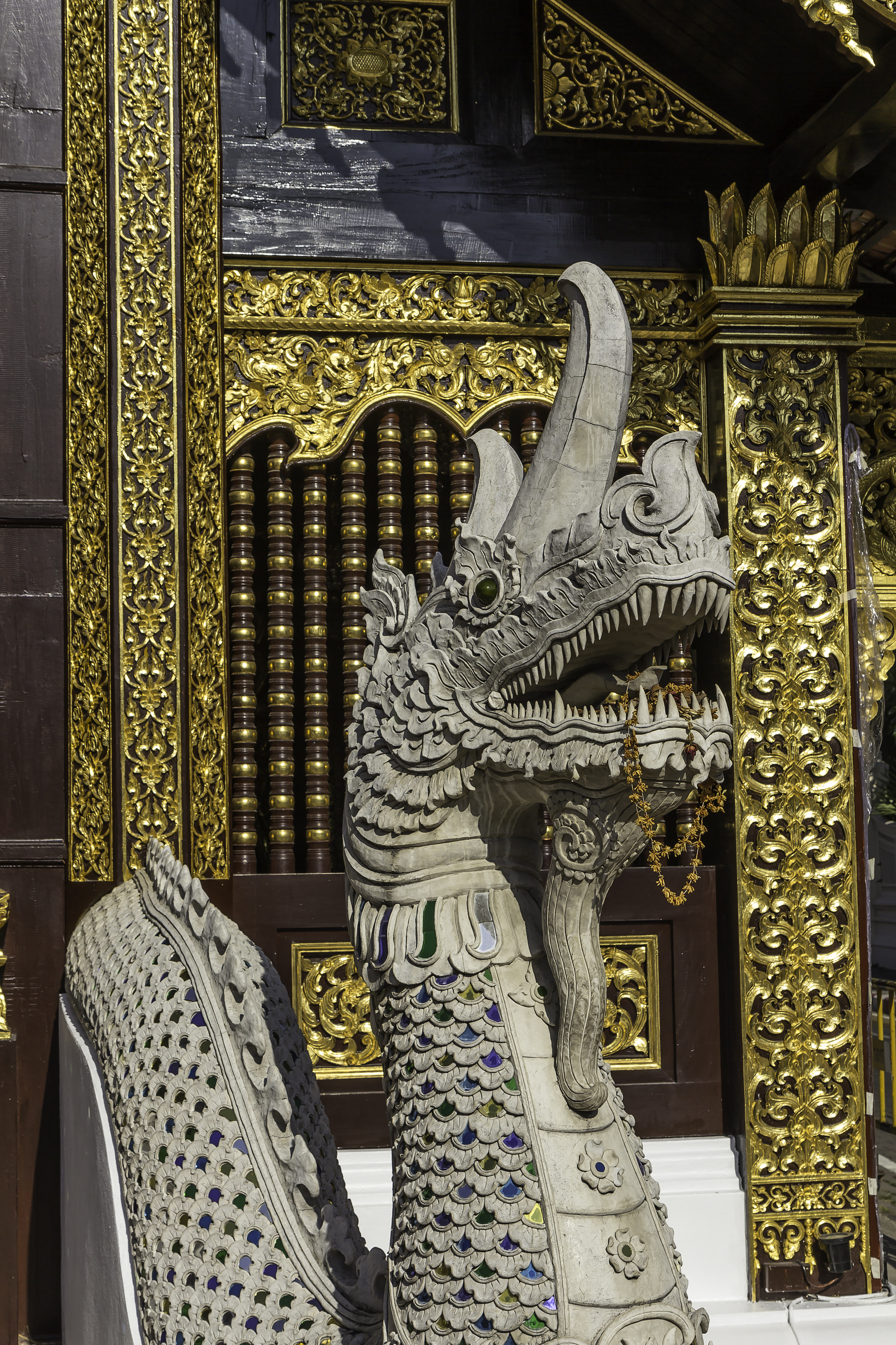 Naga at Wat Inthakin Sadue Muang, Chiang Mai